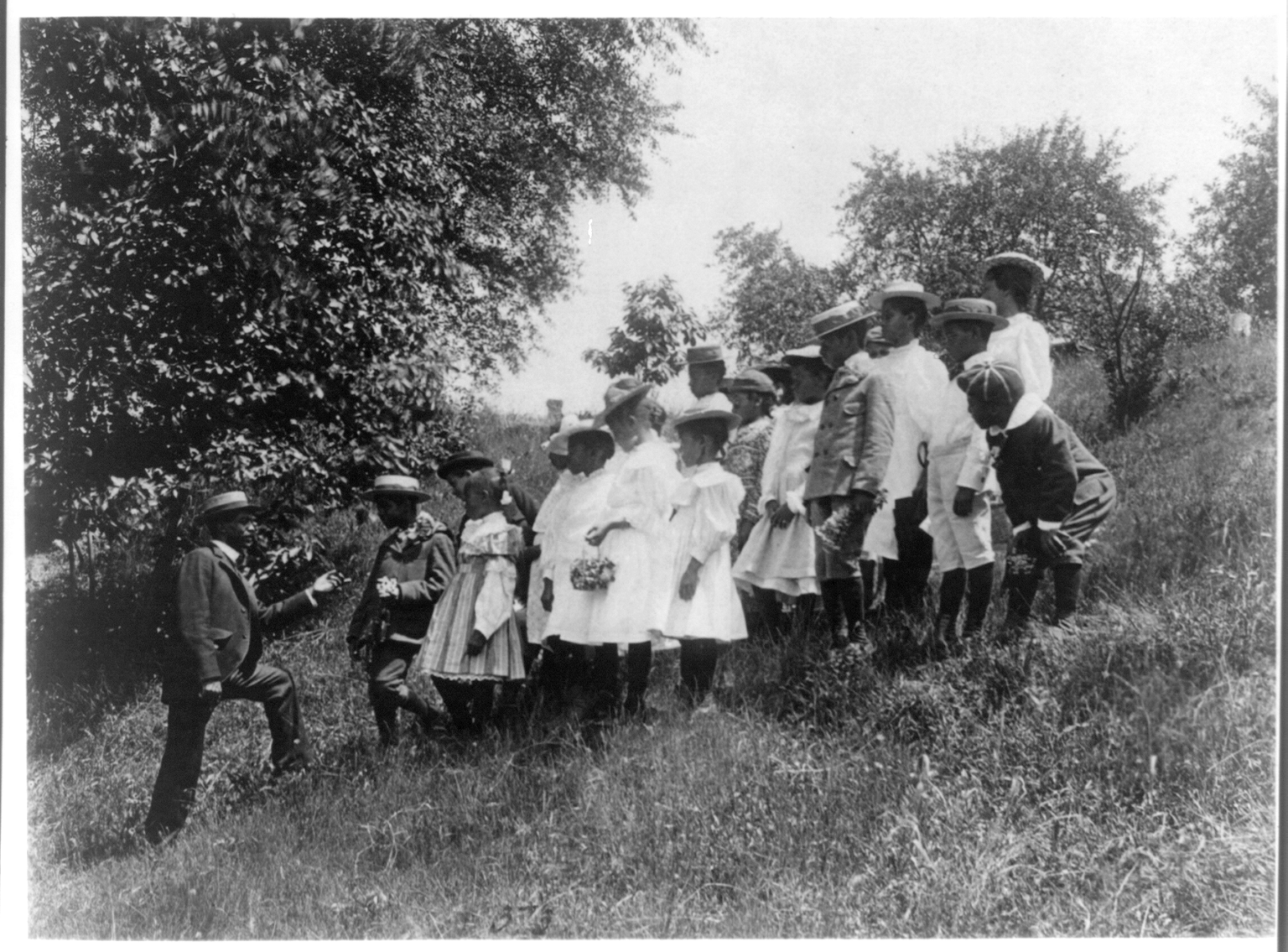 Field-trip - school children outdoors listening to man, D.C. Public School, 8th Division (?)